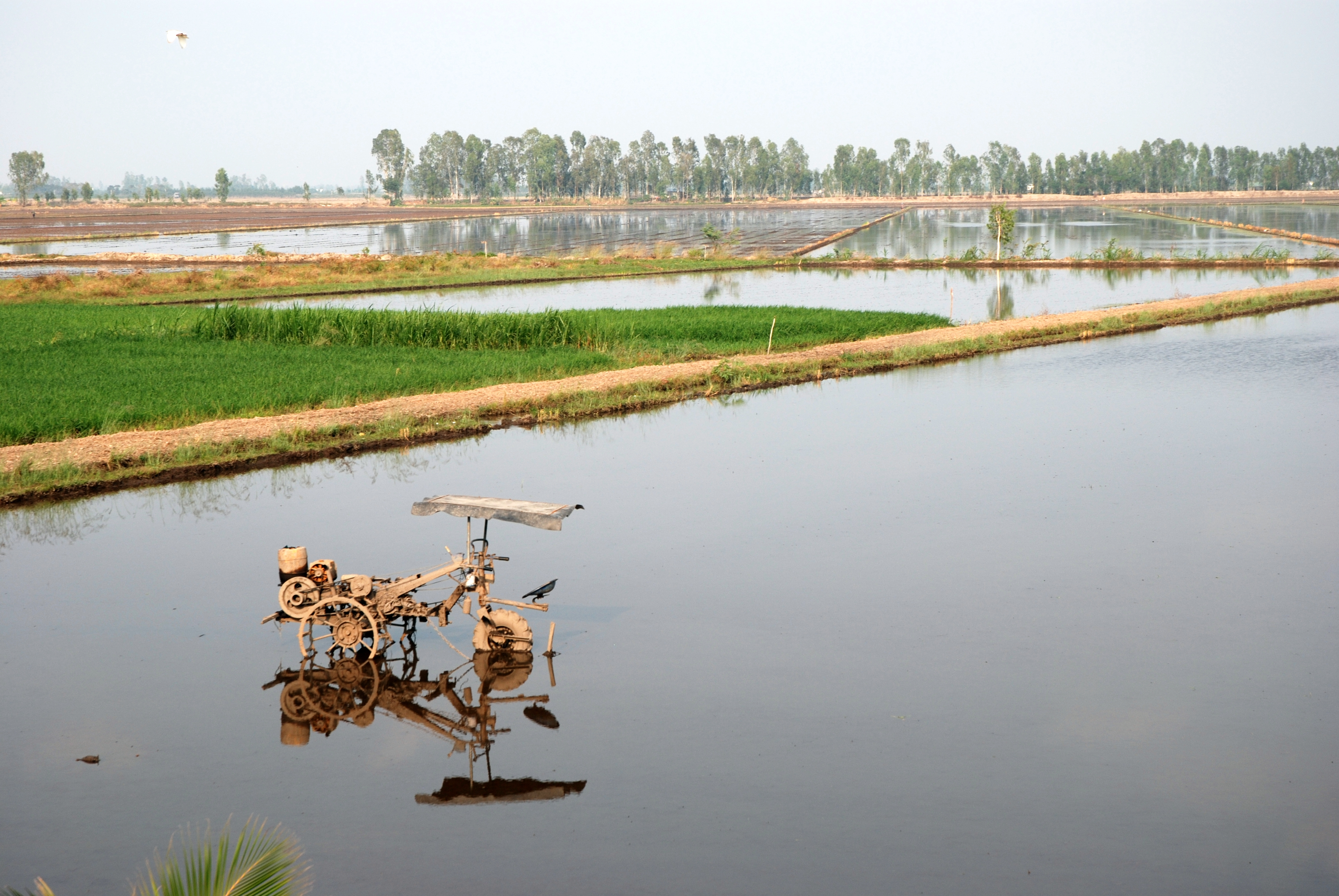 Tractor on a paddy field in Mekong Delta, Vietnam